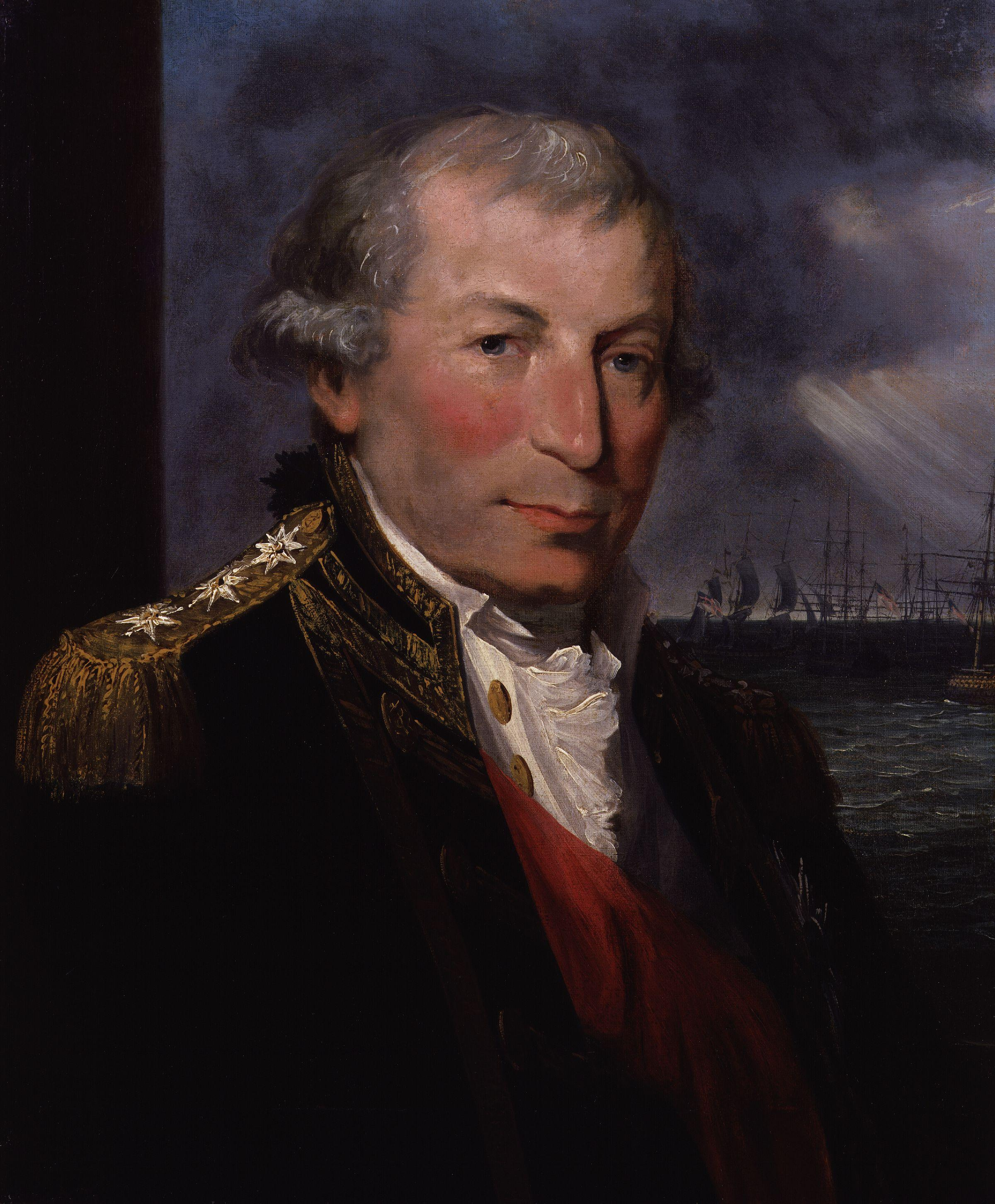 All images in this batch have been confirmed as author died before 1939 according to the official death date listed by the NPG.